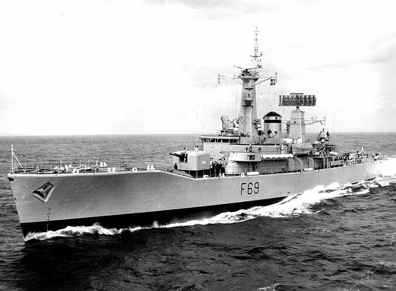 Aerial view of HMS Bacchante